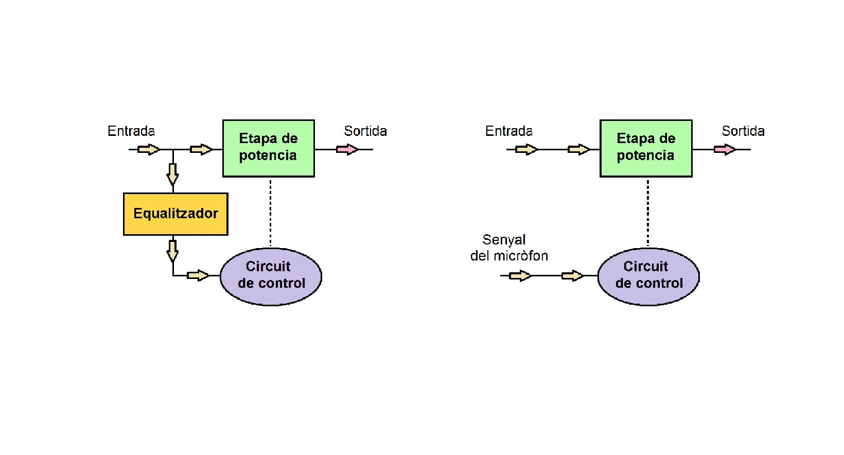 Side-Chain